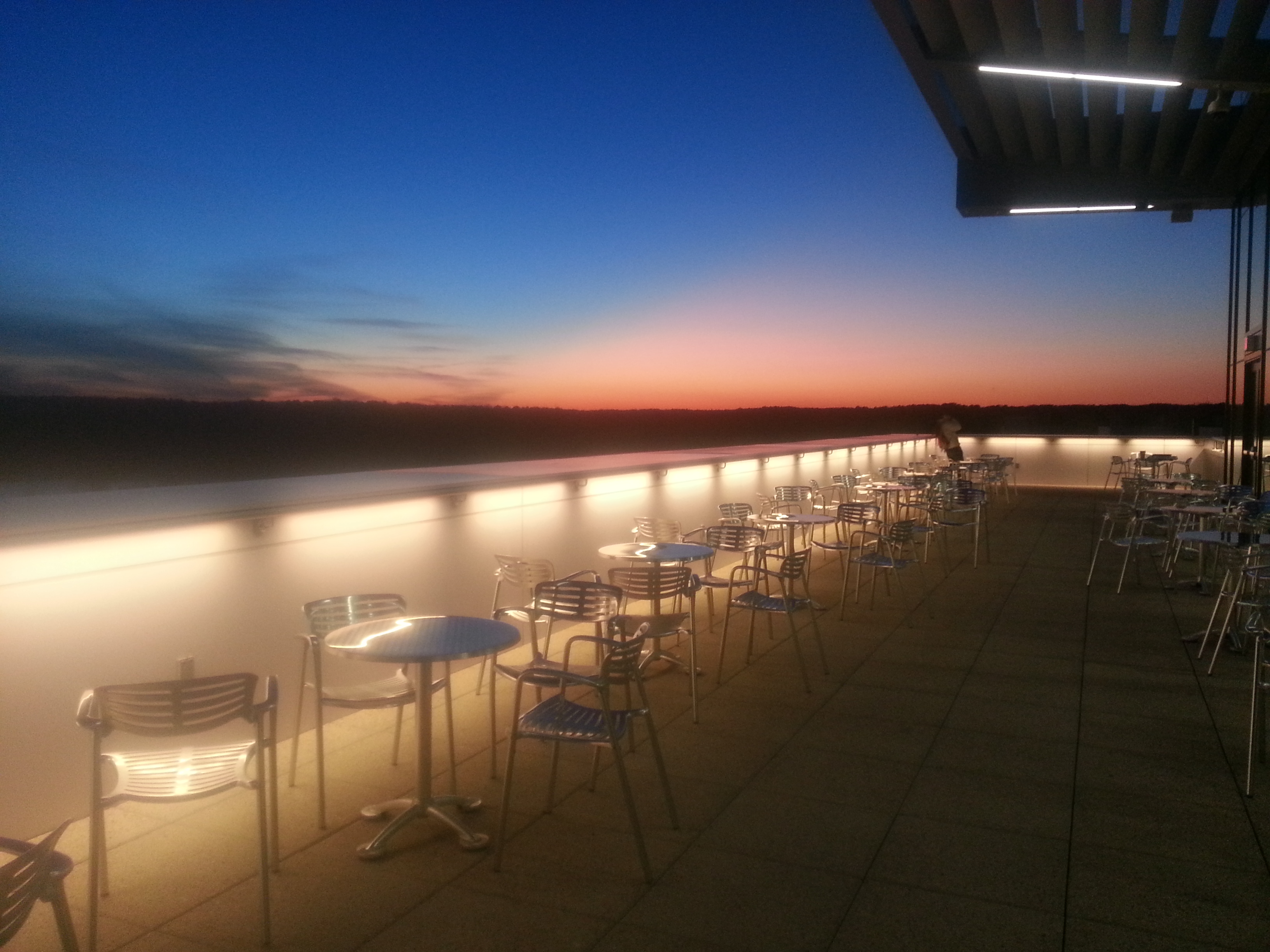 North Carolina State University James B. Hunt Jr. Library Skyline Terrace. Raleigh, North Carolina, taken 2013-01-09.